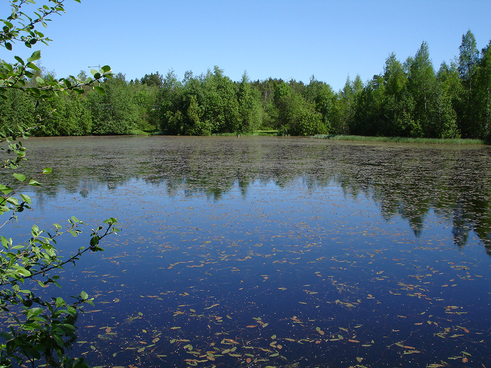 The pond Sofiehemsdammen in the district Gimonäs in Umeå, Sweden, once located next to the mansion which was built for the principal of the nearby mechanical wood pulp factory. The mansion was demolished in the end of the 1990's.